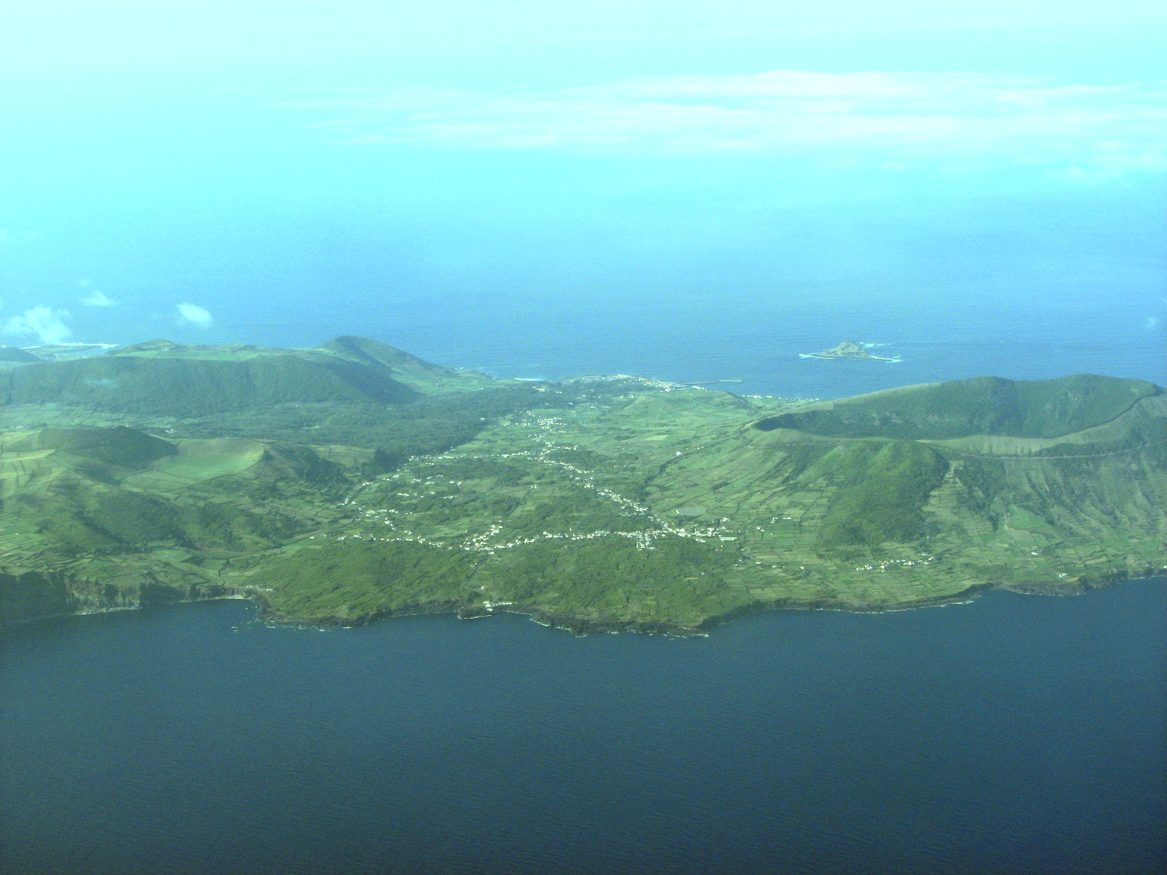 The Caldeira area of Graciosa, Azores. The village at the center is Luz.